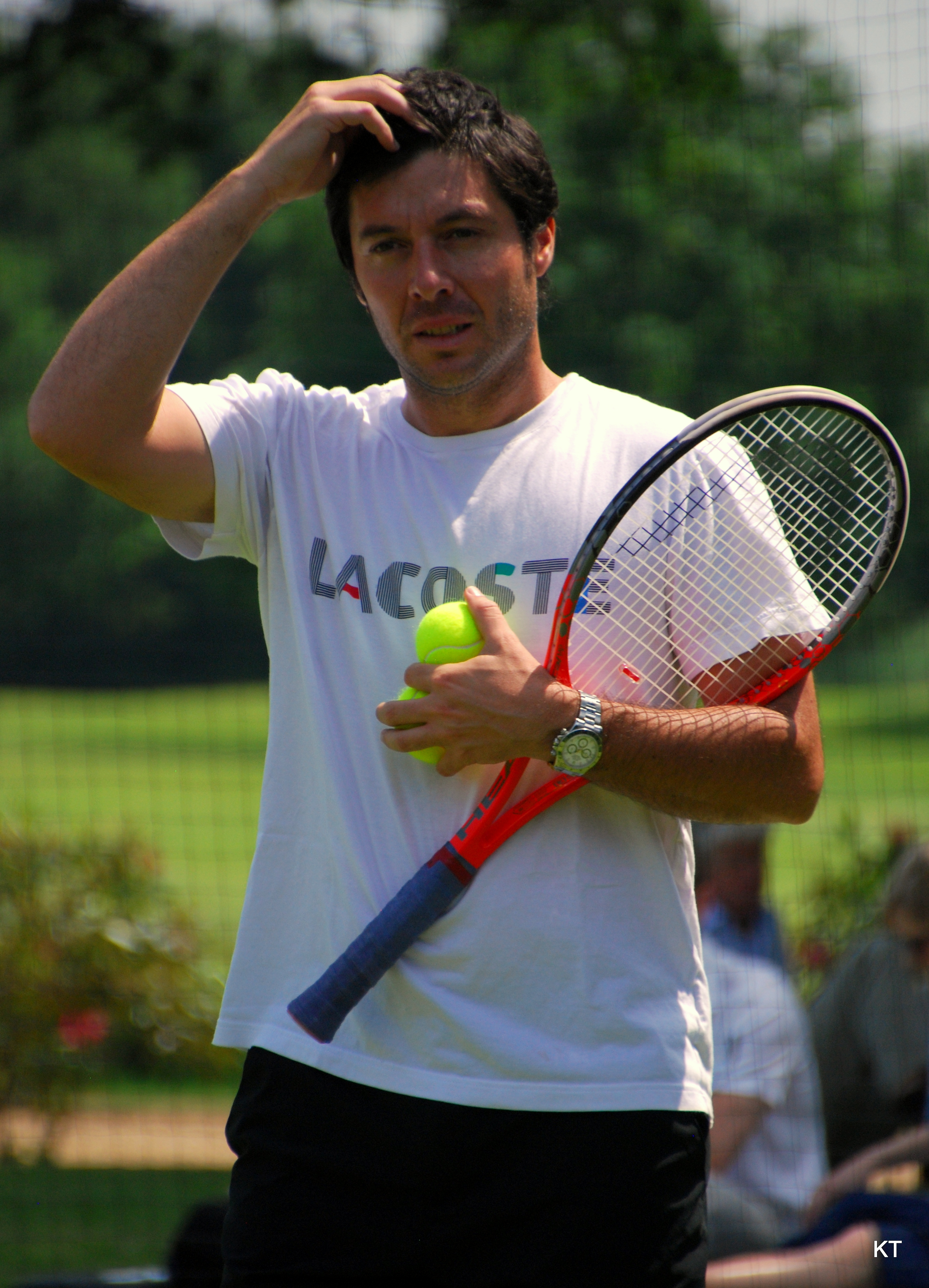 Coaching Richard Gasquet at the Boodles, Stoke Park, 2013.